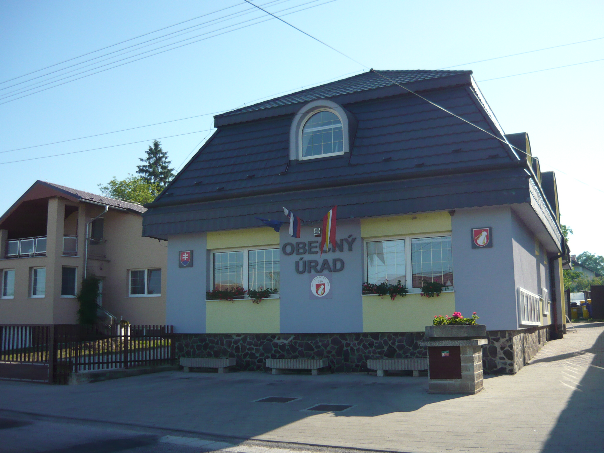 The town hall of Jacovce, Slovakia.